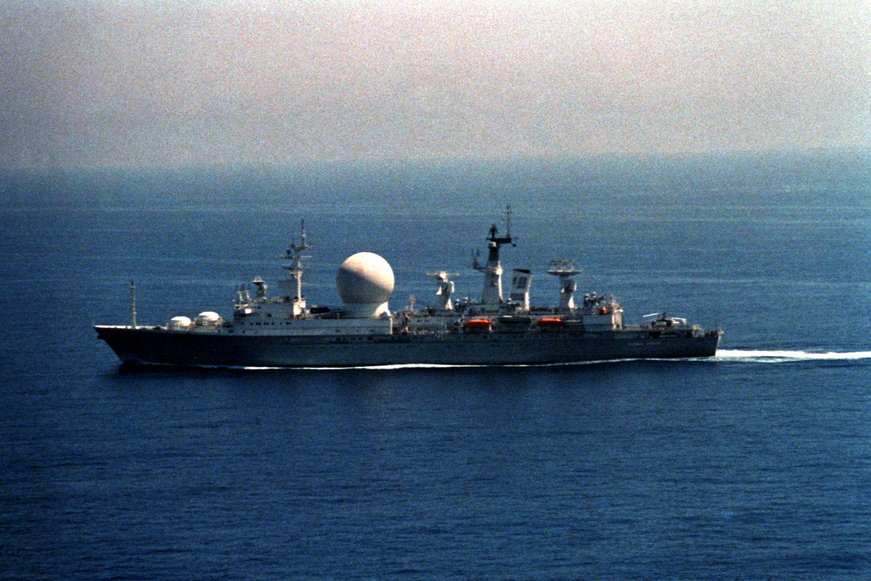 A port beam view of the Soviet Marshal Nedelin class naval missile range ship MARSHAL KRYLOV underway.